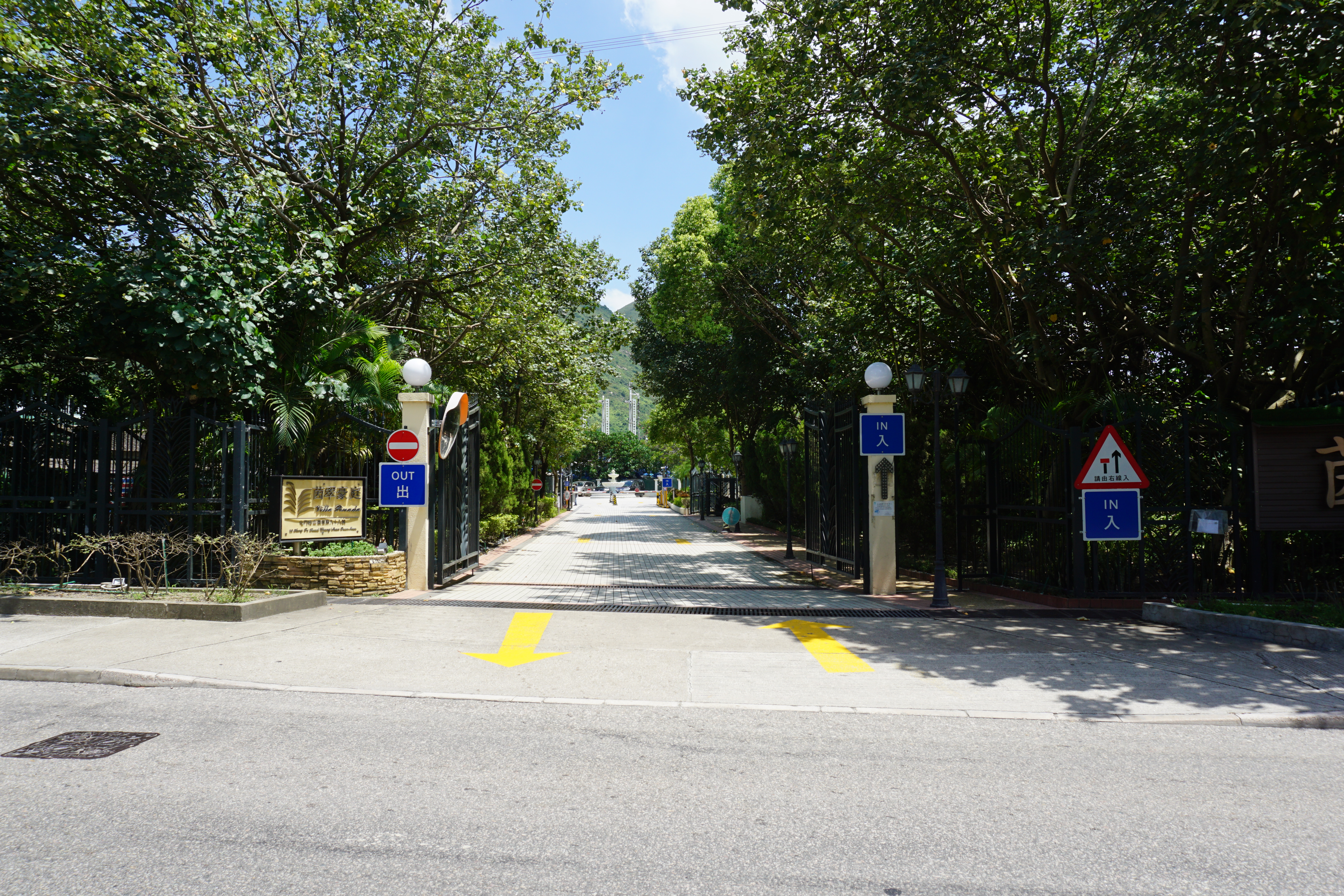 Villa Pinada in Tuen Mun, Hong Kong.